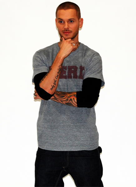 The singer M. Pokora at a promotion meeting for the release of his album MP3 in Paris.